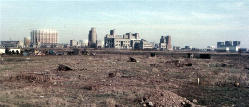 All taken from the top of Beckton Alps. Notes used to show location of detail pictures. When we lived at Beckton they were filming Full Metal Jacket at the Gas Works we all received an appeal from the film company NOT to phone the fire brigade on seeing flames at the gas works. As they were special effects and they had to pay the fire brigade a fee each time they had to respond to a false alarm at the site.